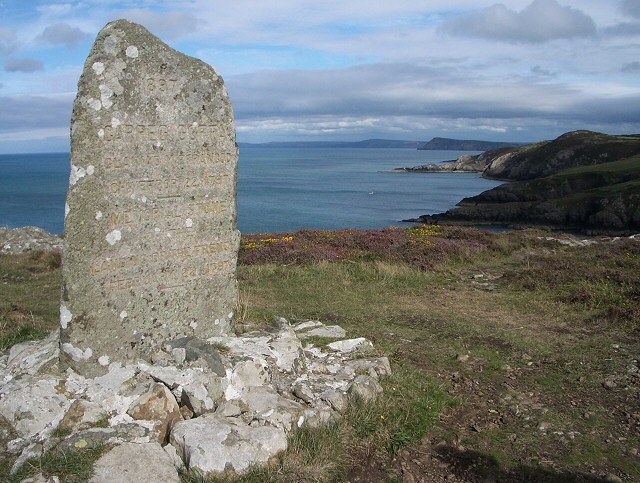 Last invasion of Britain - Carregwastad Point. The inscription on the stone reads: 1897 CARREG GOFFA GLANIAD Y FFRANCOD CHWEFROR 22 1797 MEMORIAL STONE OF THE LANDING OF THE FRENCH FEBRUARY 22 1797 The story of this invasion can be read from information boards in Goodwick. It failed; the French troops discovered a cache of liquor saved from a shipwreck and were easily overcome by local men and women.